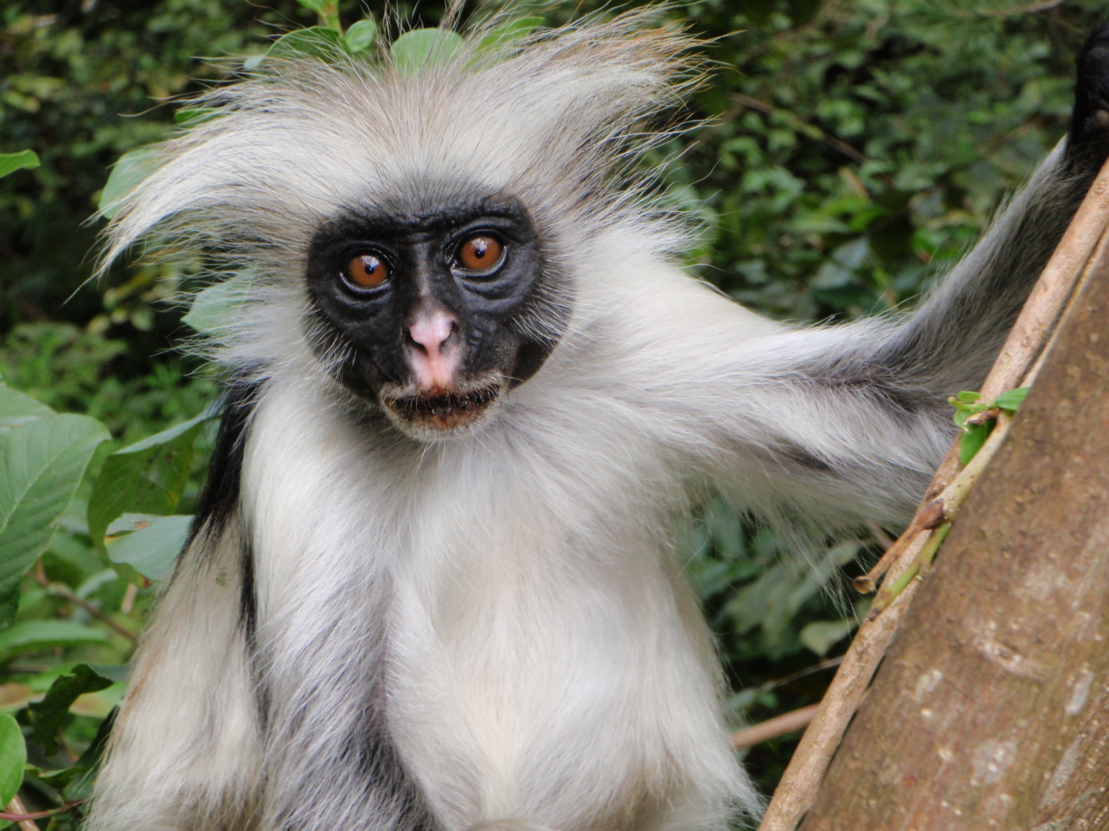 Red Colobus monkey in Jozani forest. Endemic to Zanzibar.